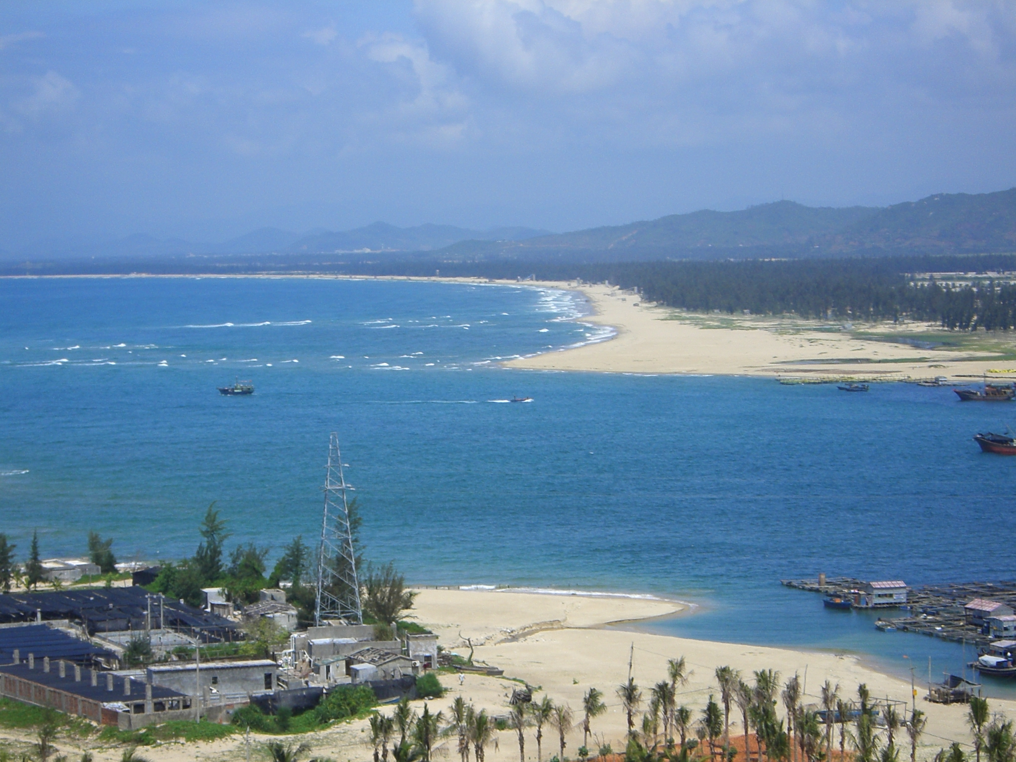 Hainan beach